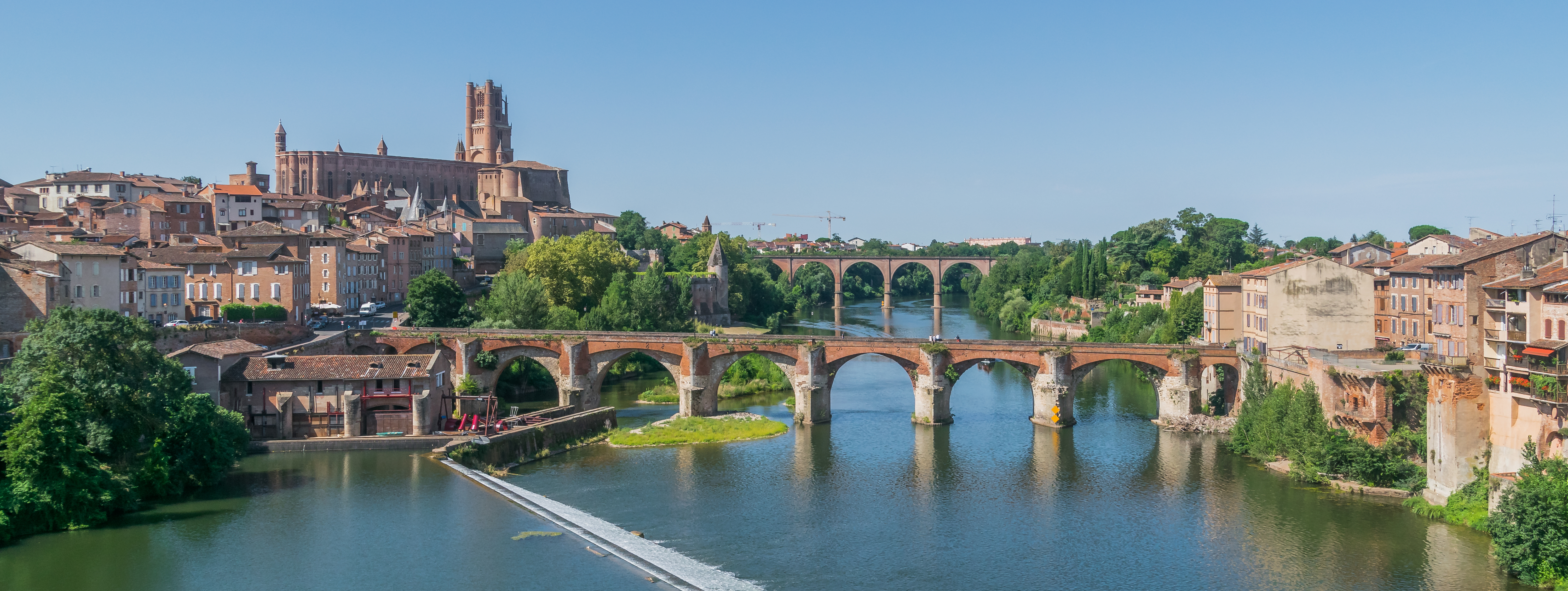 Vieux Pont and Saint Cecilia Cathedral of Albi, Tarn, France This place is a UNESCO World Heritage Site, listed as Cité épiscopale d'Albi.